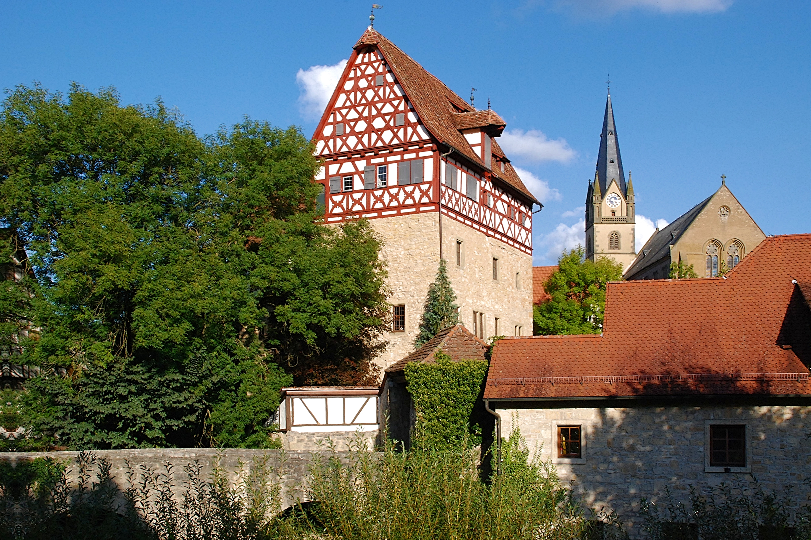 View on Laudenbach (Weikersheim)